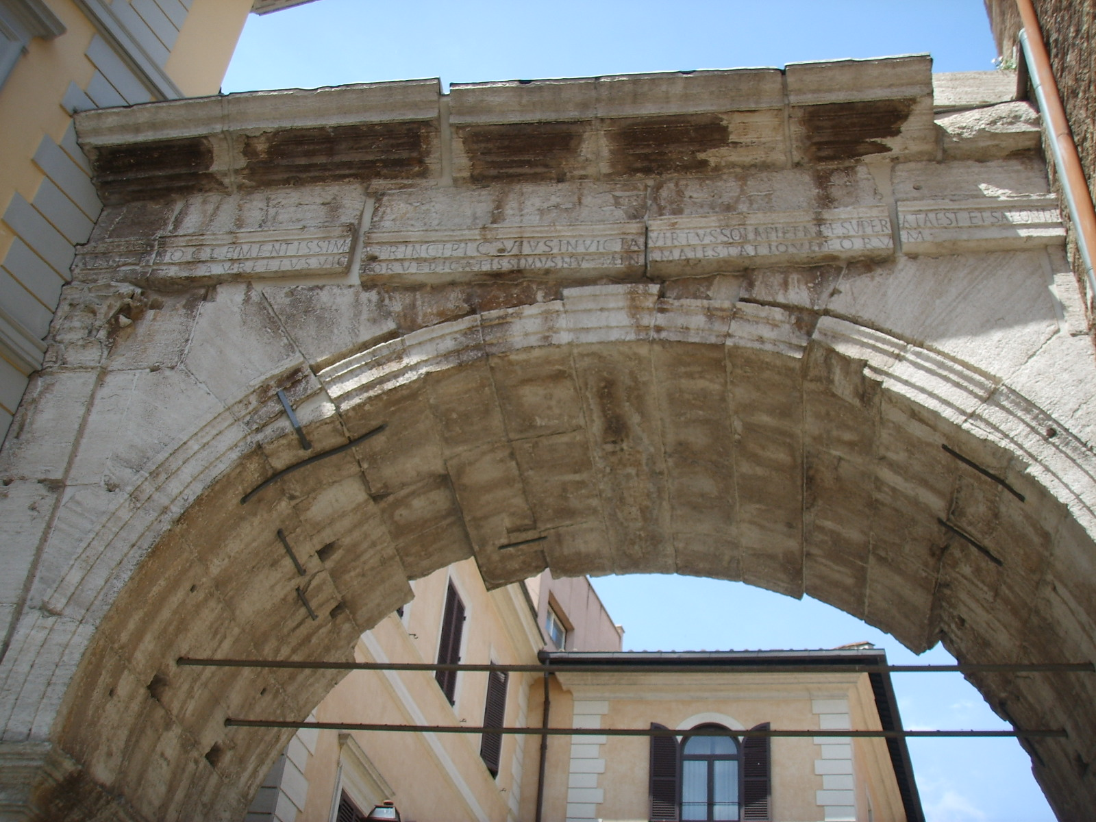 Gallieno arch, in Rome, Italy